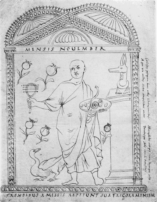 Month of November from in the Chronography of 354 by the 4th century kalligrapher Filocalus. The copies of the original illustrations are pen drawings in a 17th century manuscript from the Barberini collection (Vatican Library, cod. Barberini lat. 2154).